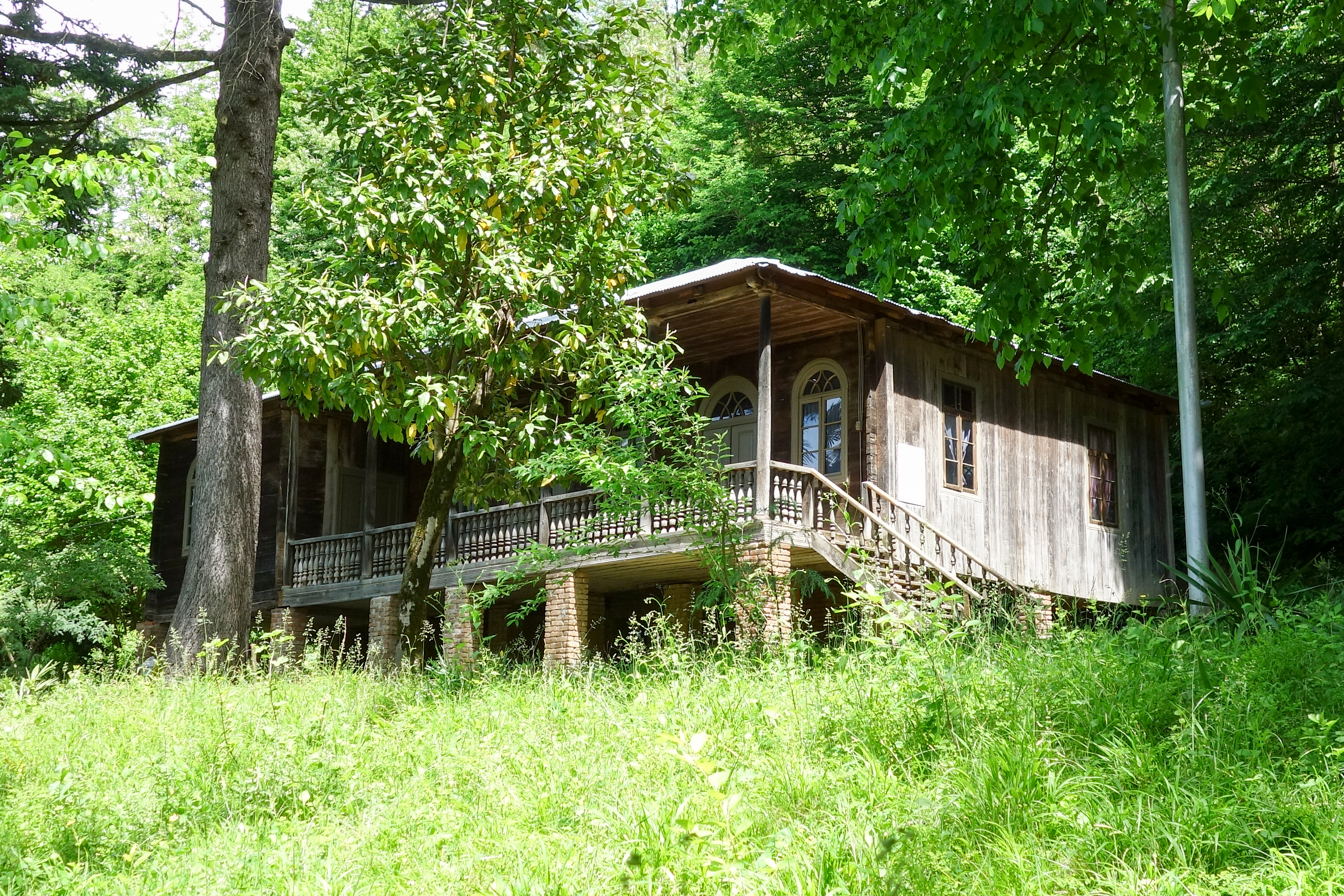 The house, where V. Mayakovsky was born (Baghdati, Imereti, Georgia)